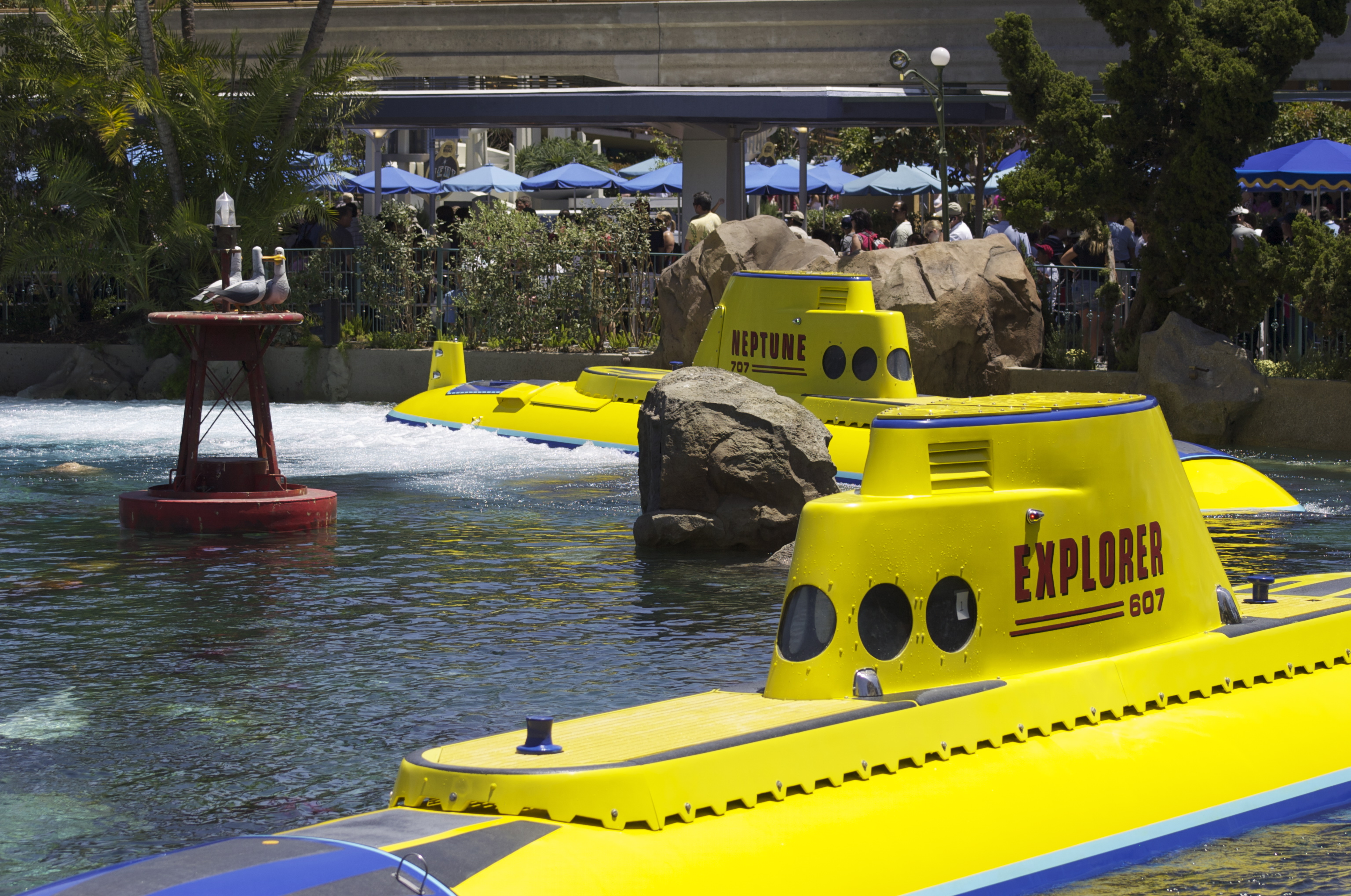 Lagoon for Finding Nemo Submarine Voyage